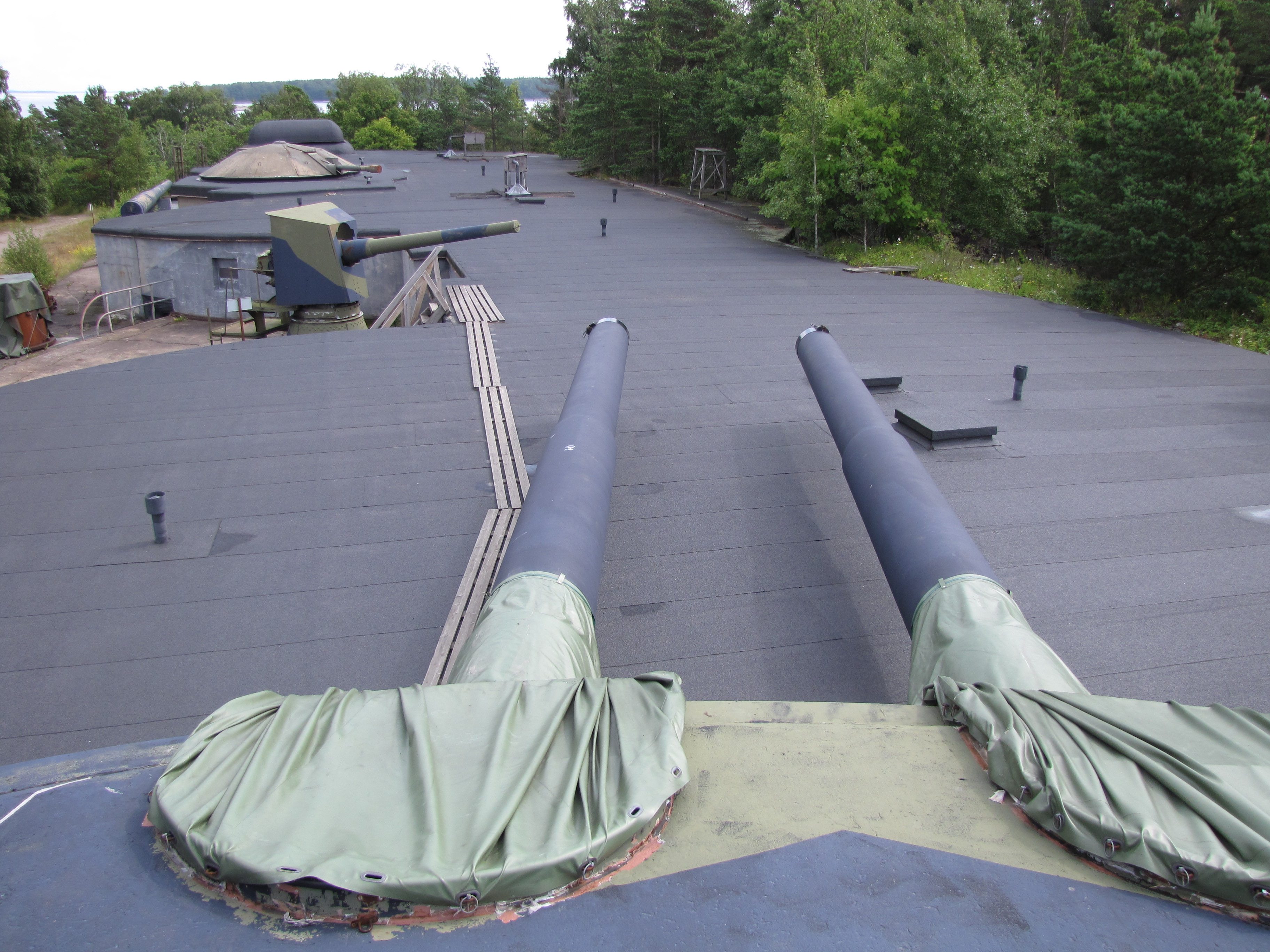 Coastal artillery exhibition in Kuivasaari island. Photo taken from the roof of a 305 mm double turret, 152 mm Canet gun in original condition next, rebarreled Canet with 152 mm Tampella barrel under cupola, command point last. The position is originally built for 254 mm Durlacher guns in single mountings; one such gun is in the fourth position behind the photographer.